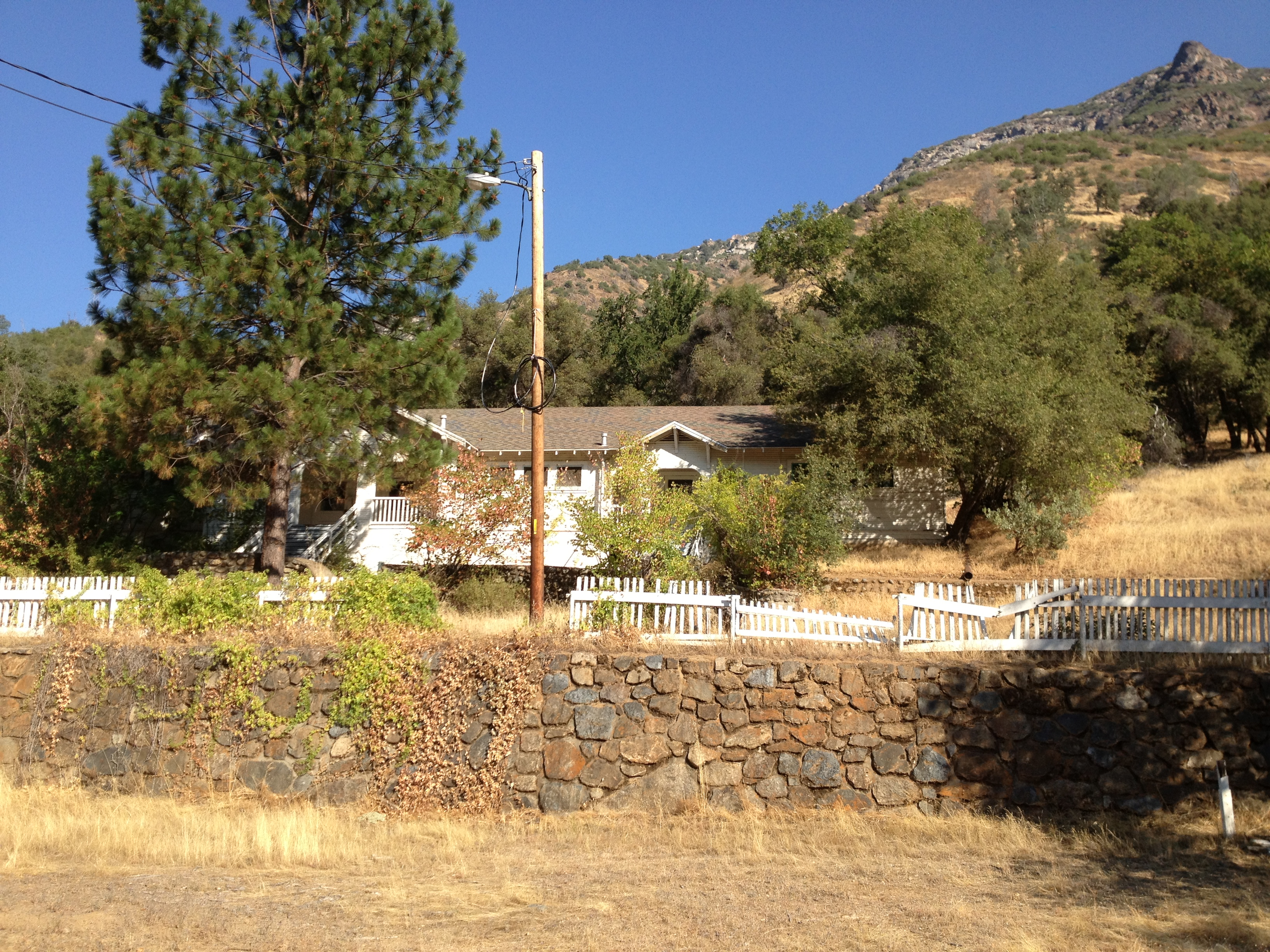 El Portal Old Schoolhouse, Chapel Lane, Yosemite National Park El Portal